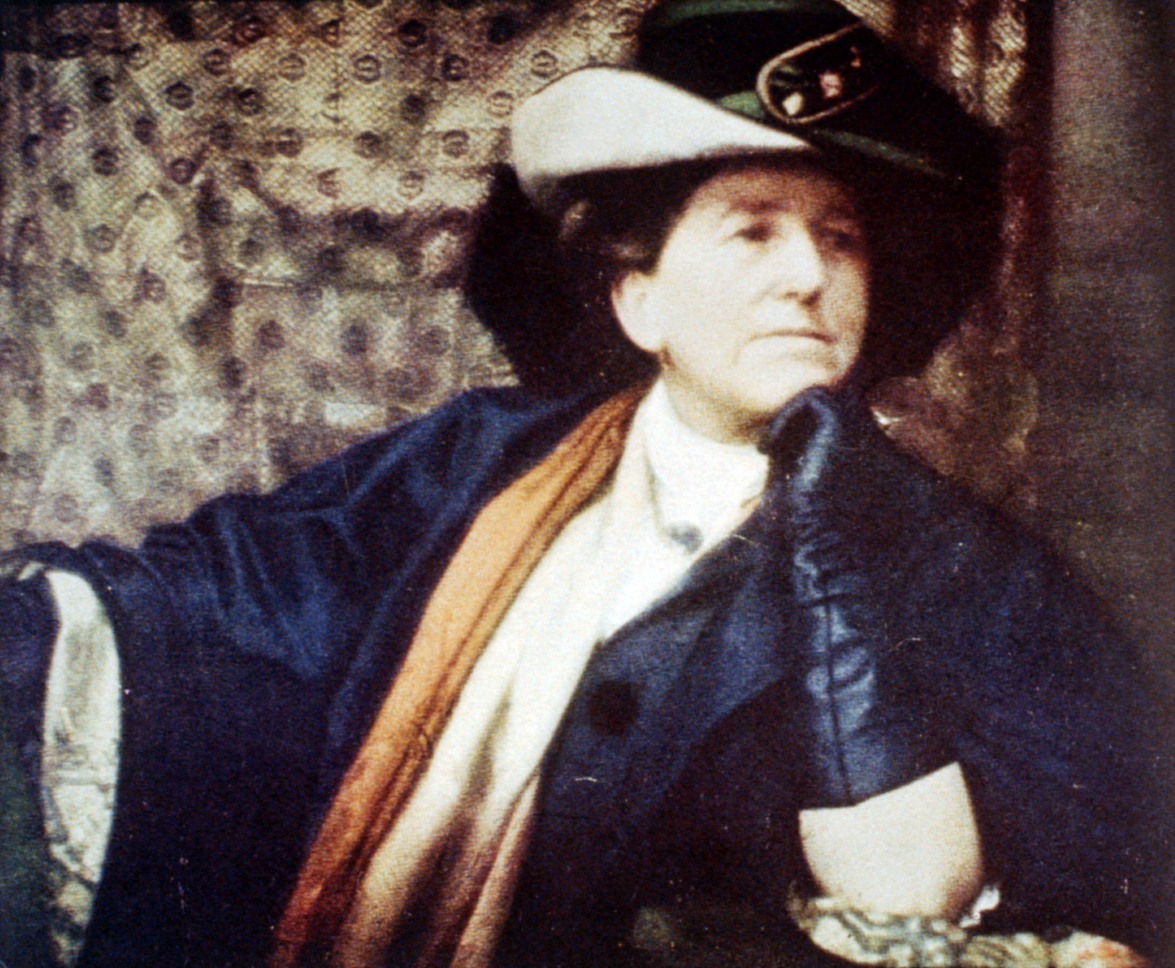 Facsimile of a photograph in color of Mrs. Gertrude Käsebier. Color half-tone plate engraving. Originally published in Century Magazine, January 1908.